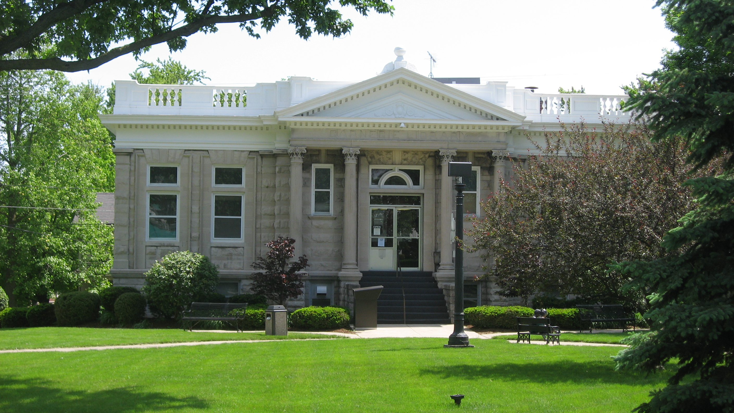 Front of the Union City Public Library, located in a park at 408 N. Columbia Street (State Road 28) in Union City, Indiana, United States. Built in 1904, it is listed on the National Register of Historic Places.